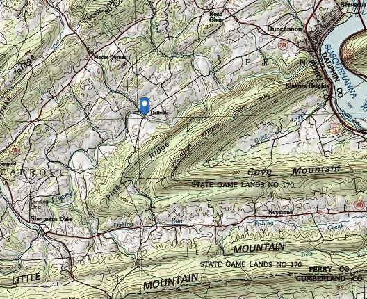 Dellville.